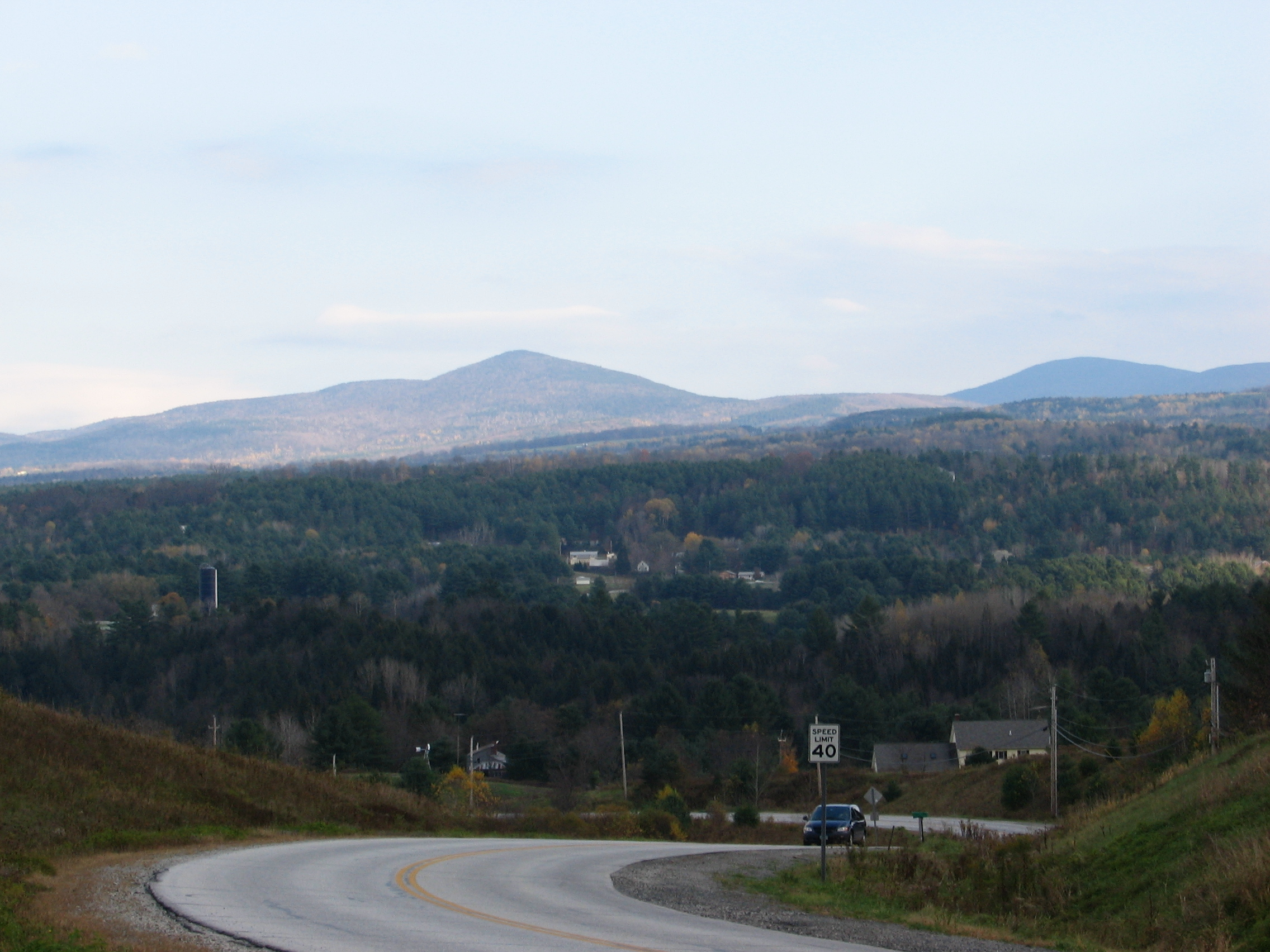 The Green Mountains, taken just outside of Montpelier, Vermont.